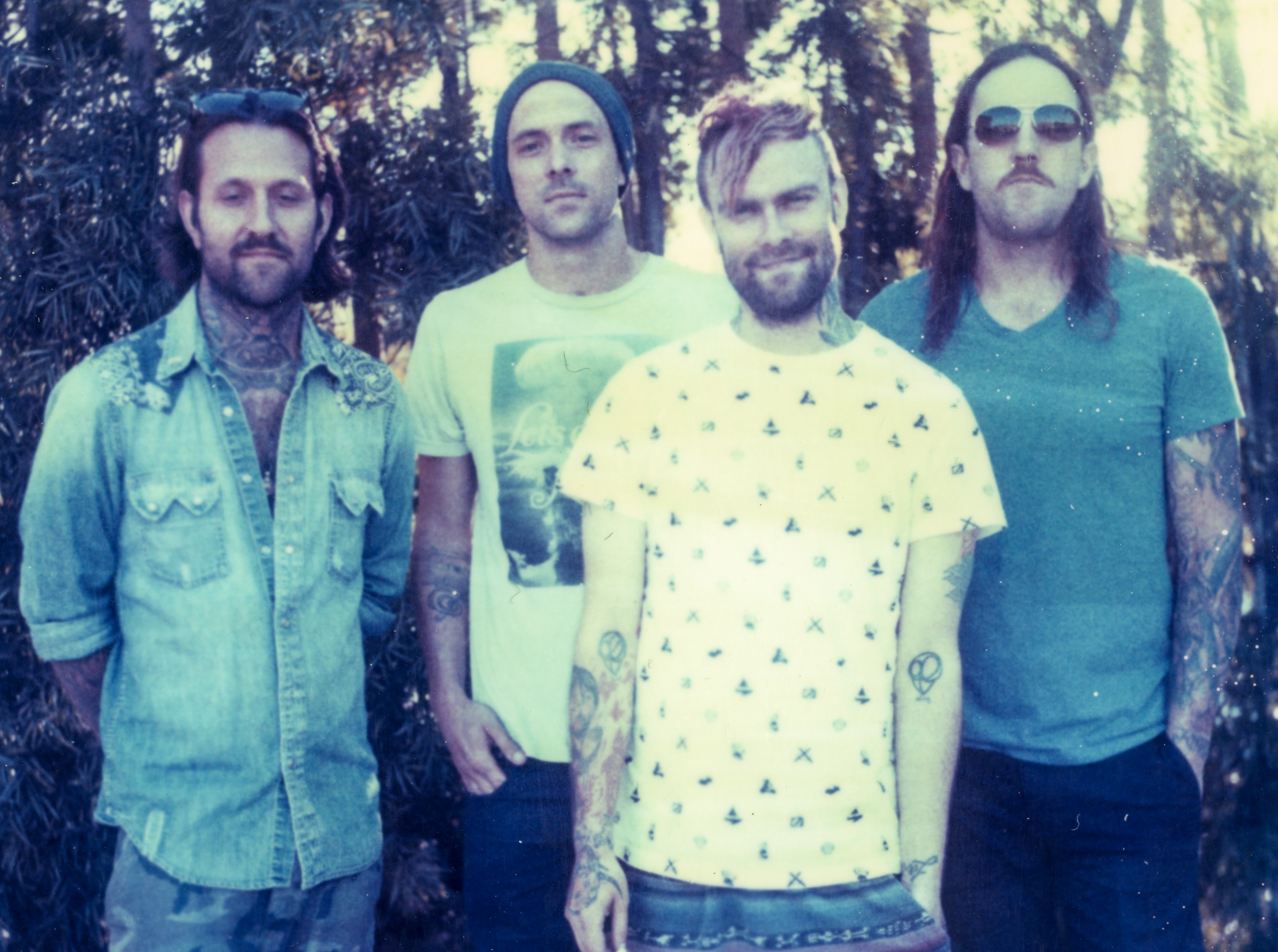 The band The Used (seen in 2013)